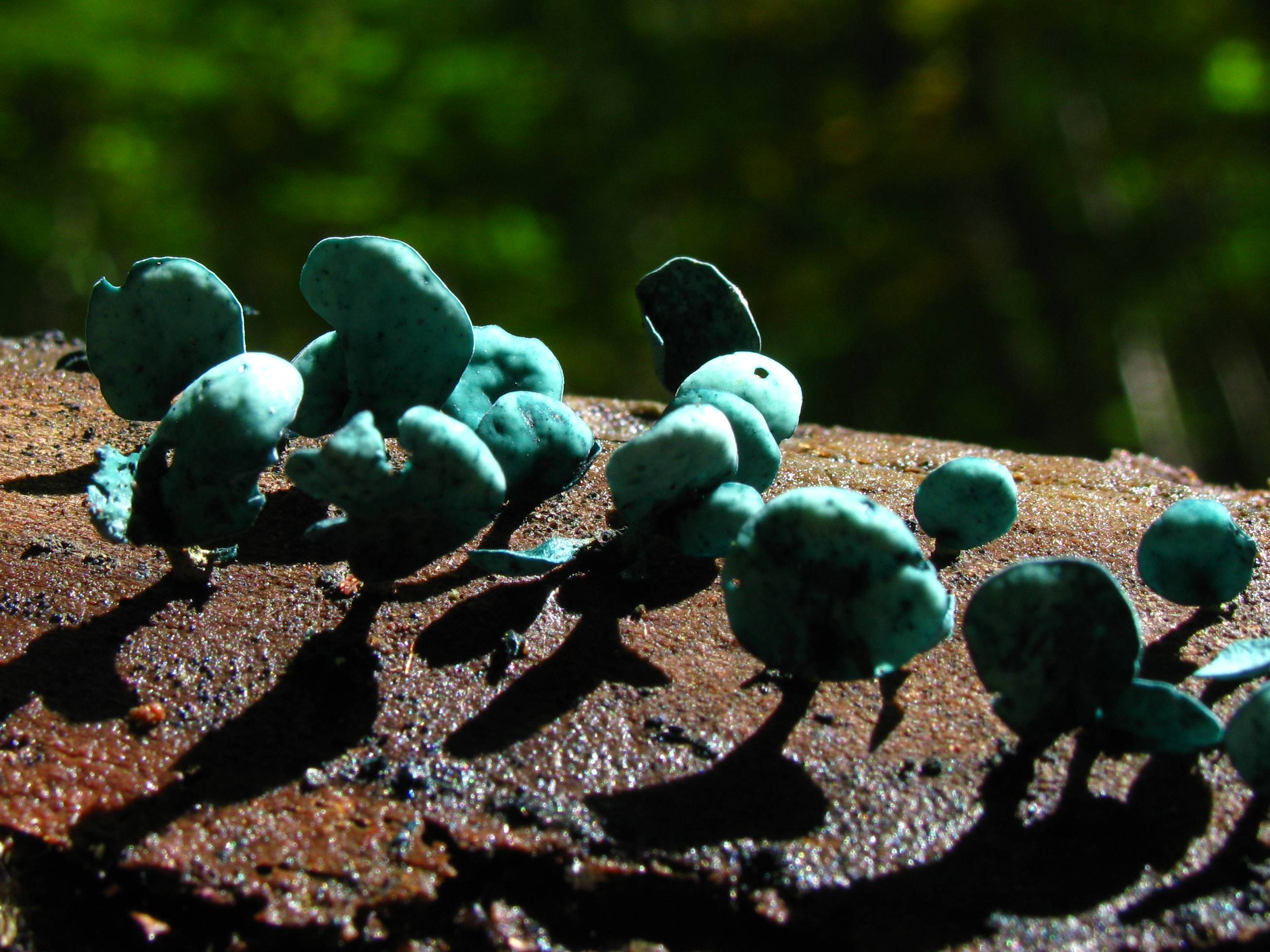 The ascomycete fungus Chlorociboria aeruginascens (Nyl.) Kanouse ex C.S. Ramamurthi, Korf & L.R. Batra